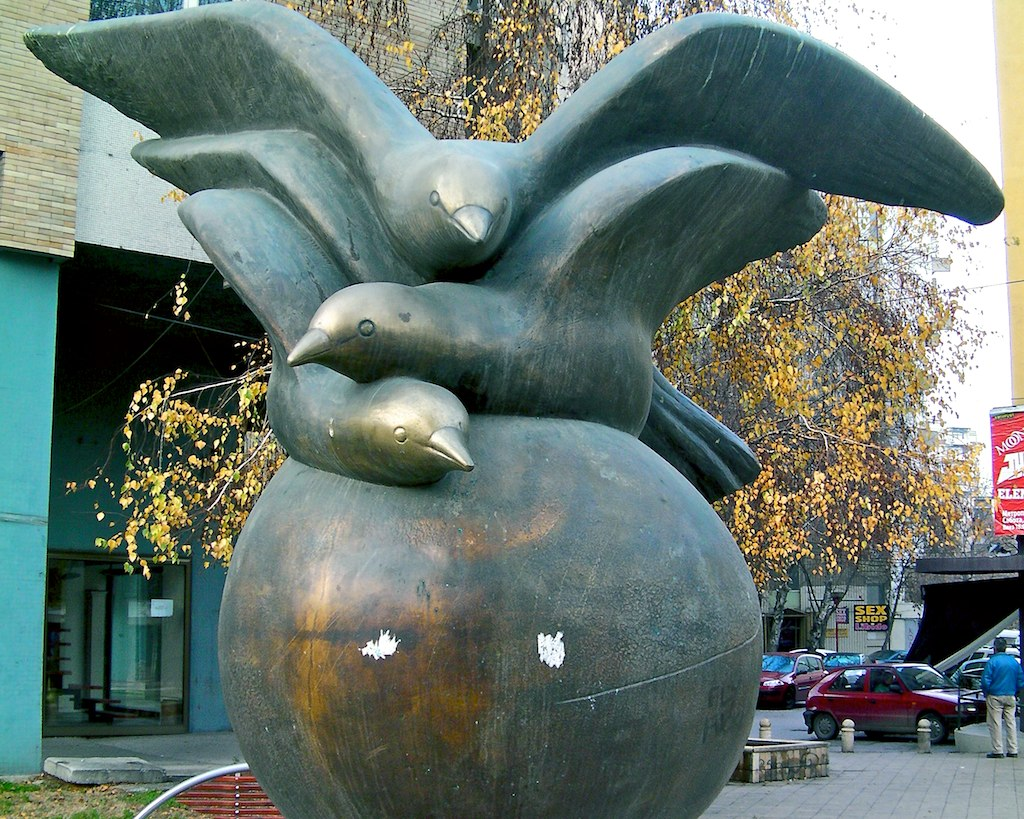 Symphony of Peace. Sculpture in Skopje, Macedonia, dedicated to Jews deported from this city. Author: Tome Serafimovski